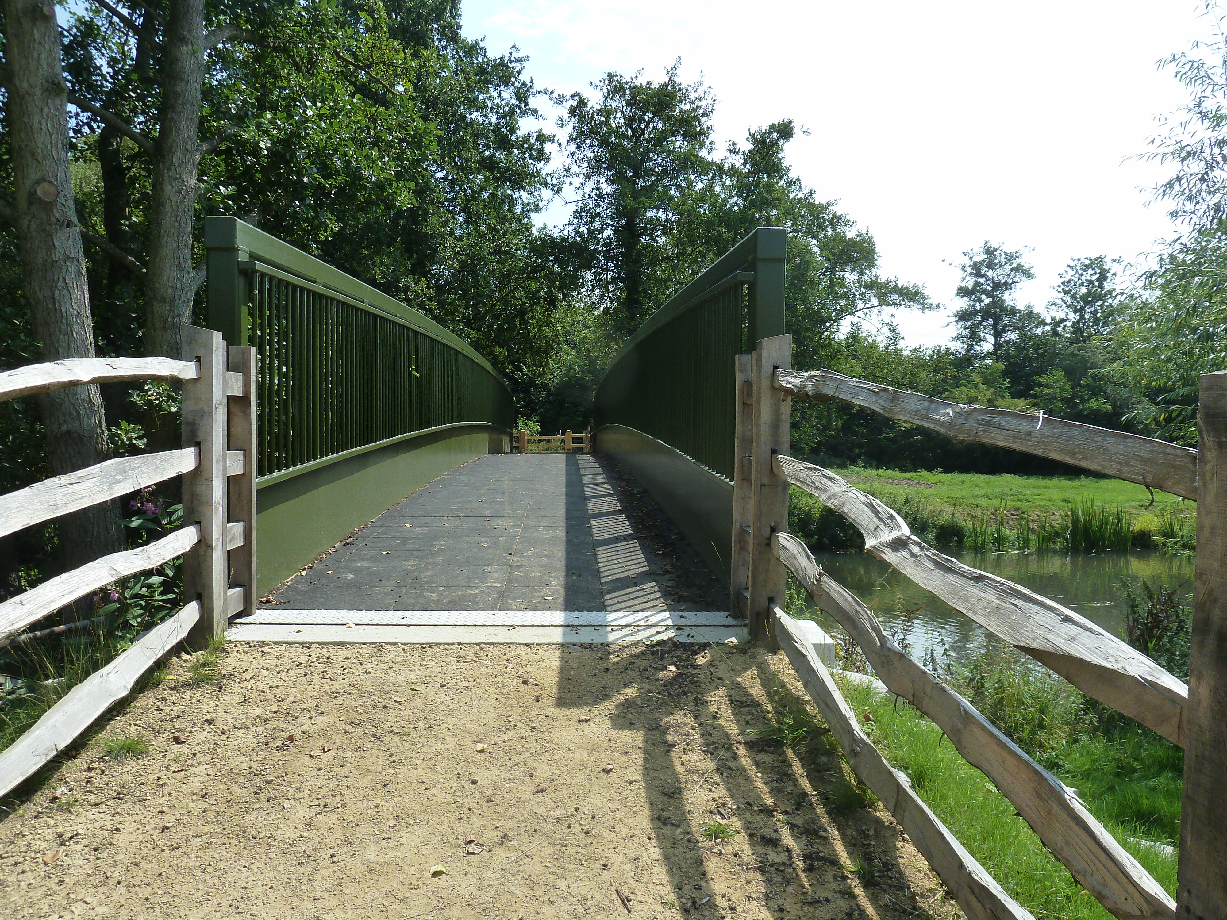 New bridleway bridge over the River Rother by Rotherbridge Farm. Back in December 2009 the bridge was closed awaiting renewal